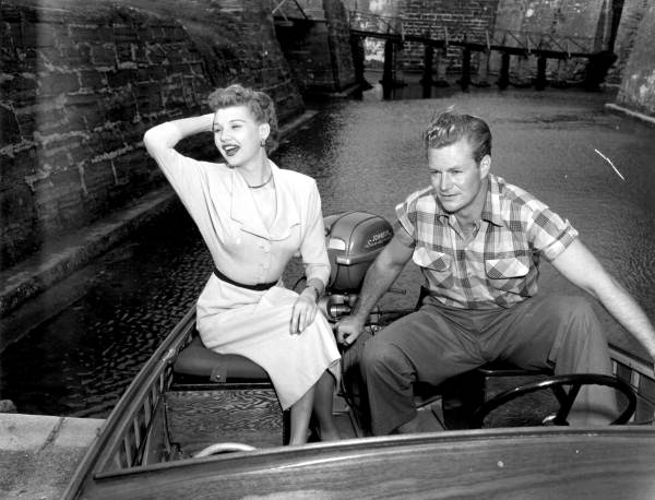 Mari Aldon and Richard Webb sit on a motorboat when visiting the castle during Distant Drums (1951) premiere : Saint Augustine, Florida